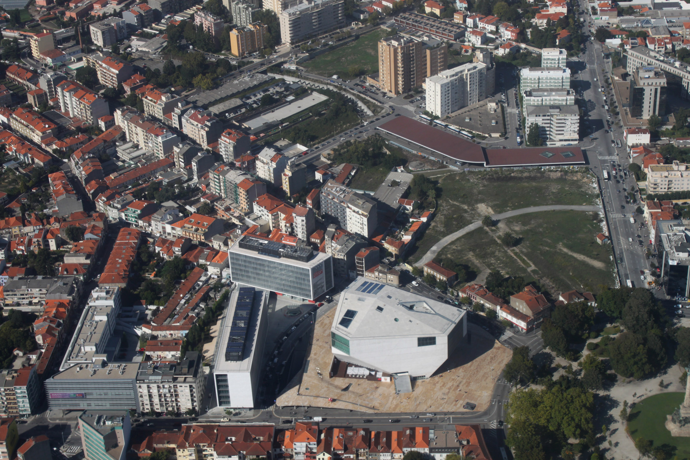 Casa da Música, fotografia aérea This file was uploaded for Wiki Loves Monuments in Portugal with the unique identifier 5894463.